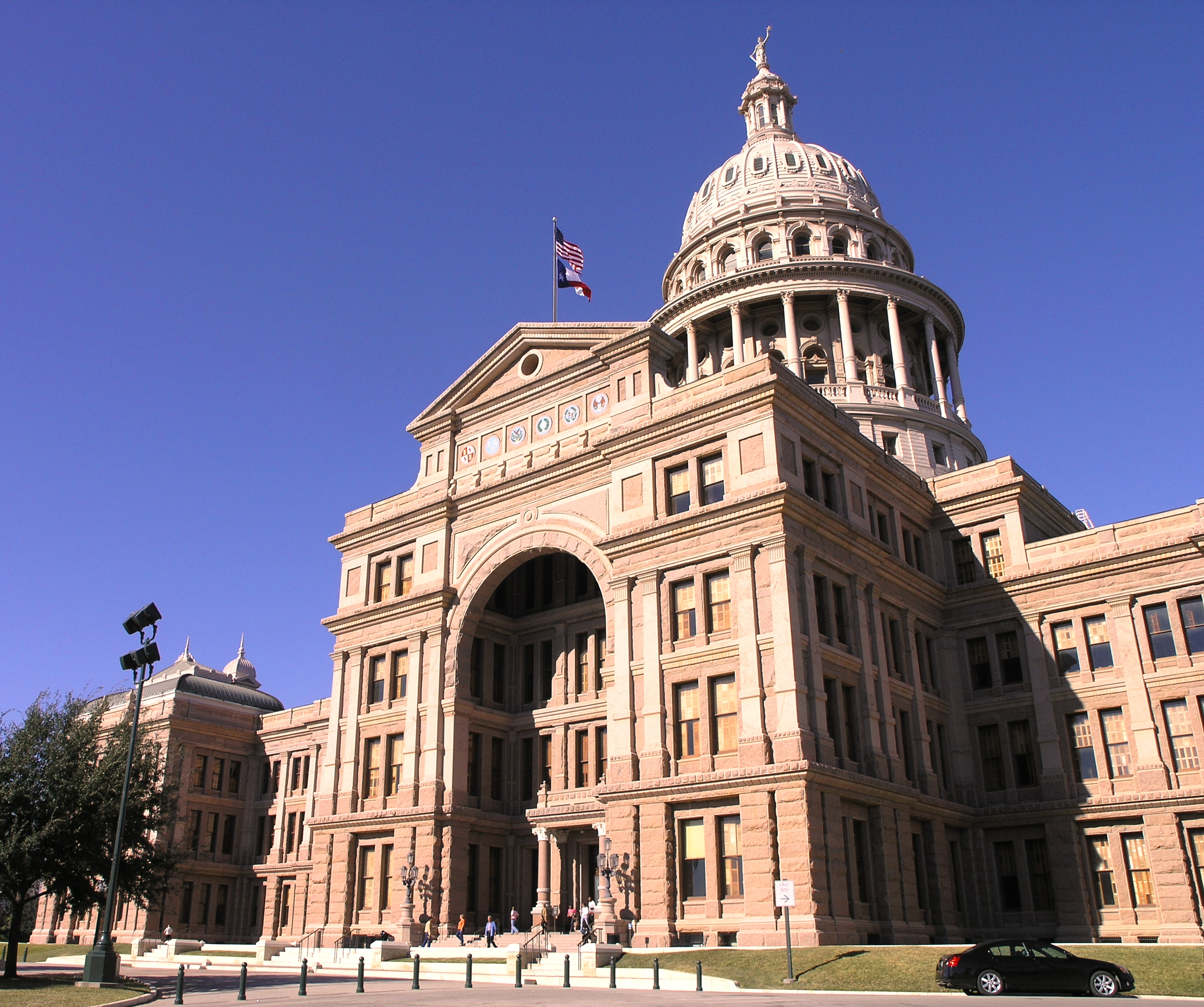 Image of Austin, Texas